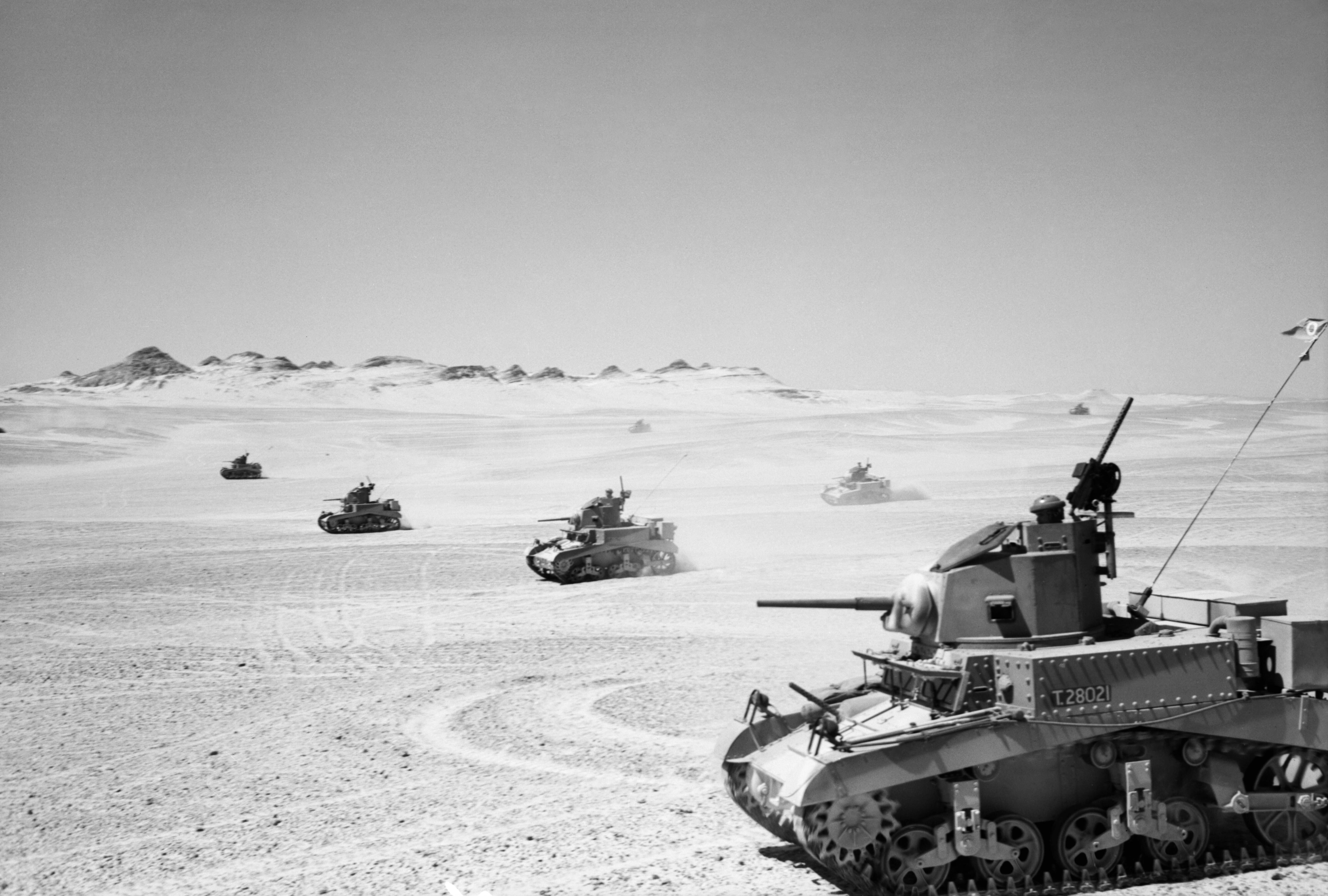 The British Army in North Africa 1941 8th King's Royal Irish Hussars training with their new Stuart tanks, 28 August 1941.